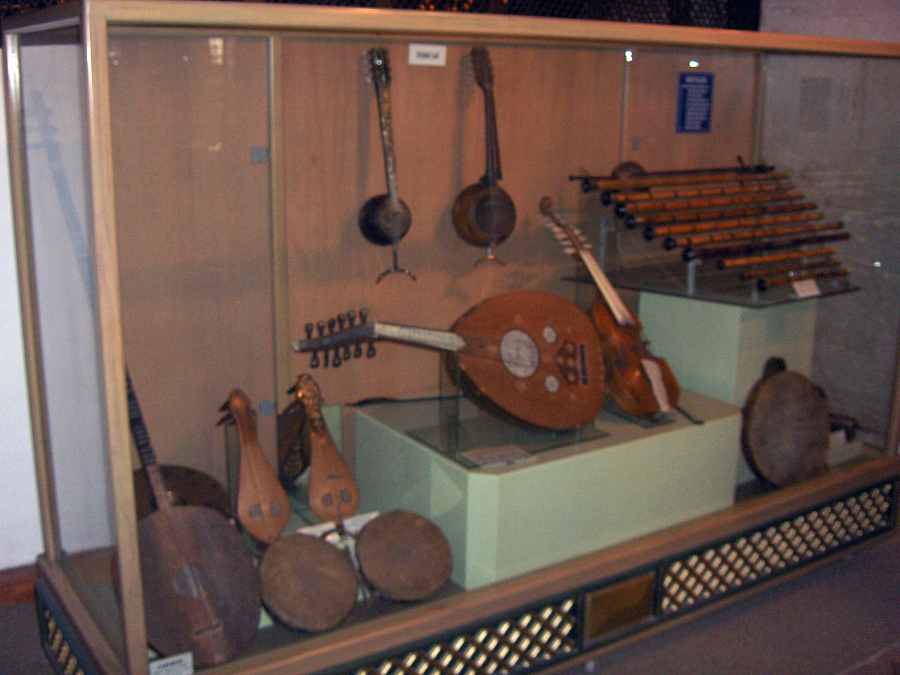 Ancient musical instruments : from left to right: turquish tambur, the halile ? (a small cymbal), 2 kemençe (small violins), a kudum (double tambourine), 2 rebab (small violins), a oud, the keman (a larger violin), the flute, played once by Mevlâna himself, the daire (a kind of tambourine); Ritual Hall (Semahane); Mevlâna mausoleum; Konya, Turkey